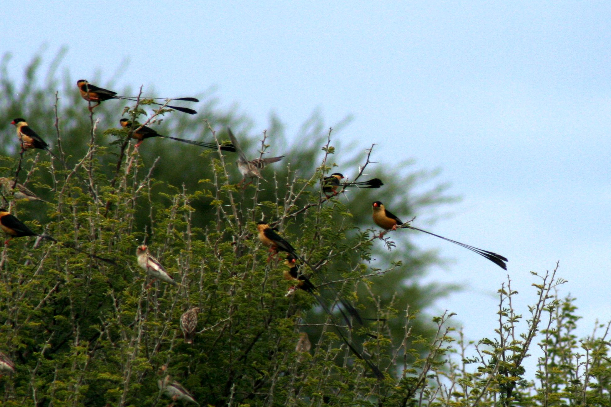 Shaft-tailed Whydahs Vidua regia at Molose Waterhole - Khutse Game Reserve, Botswana